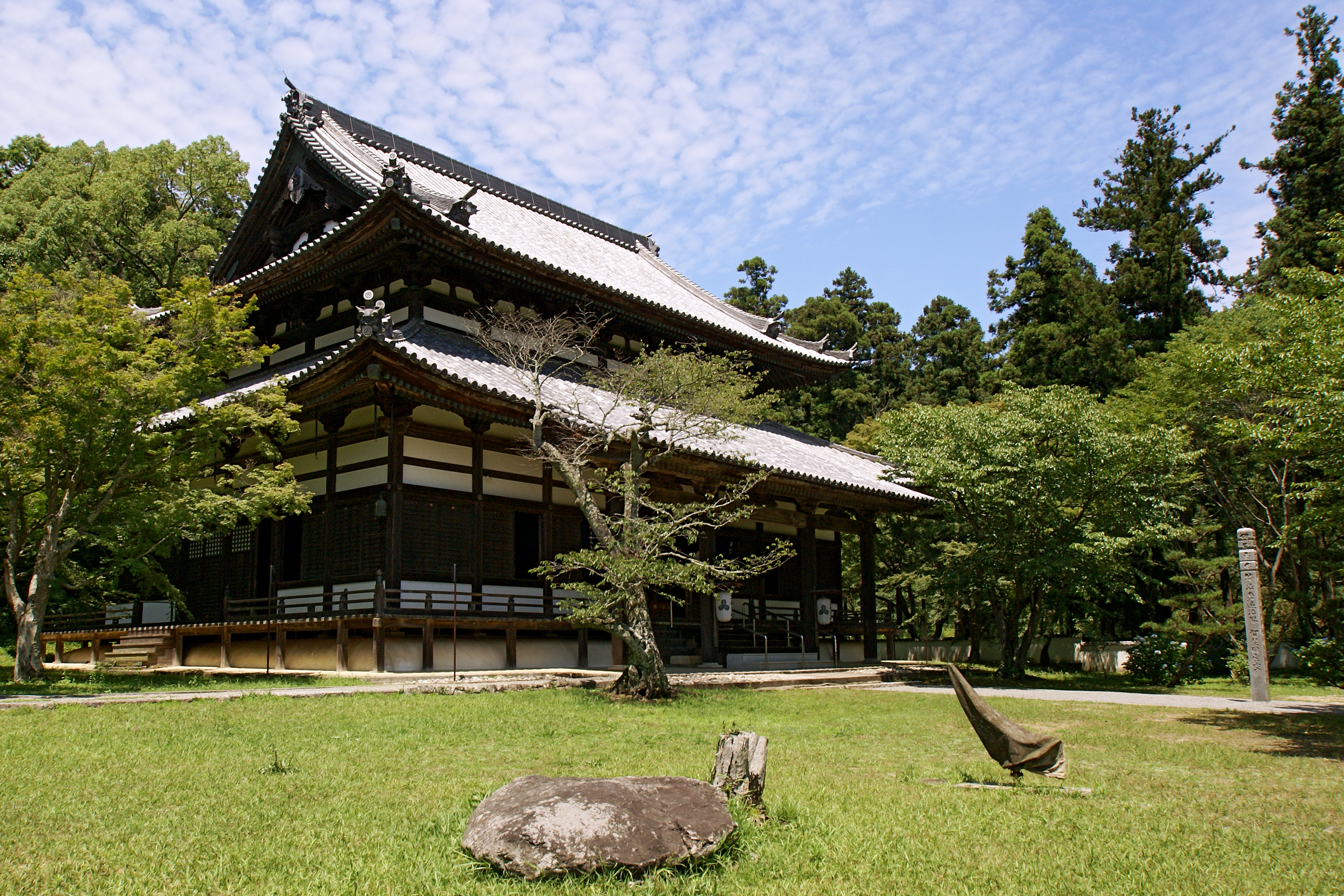 Dai-denpōdō (Main hall) of Negoro-ji in Iwade, Wakayama prefecture, Japan